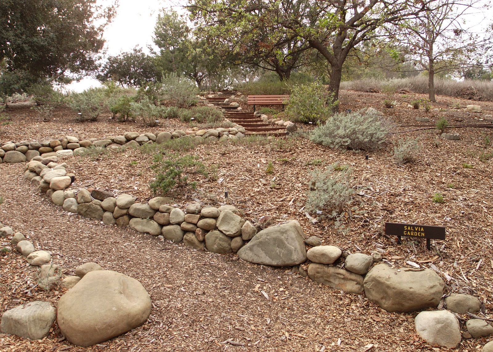 The salvia garden at the Conejo Valley Botanical Gardens in Thousand Oaks, California.